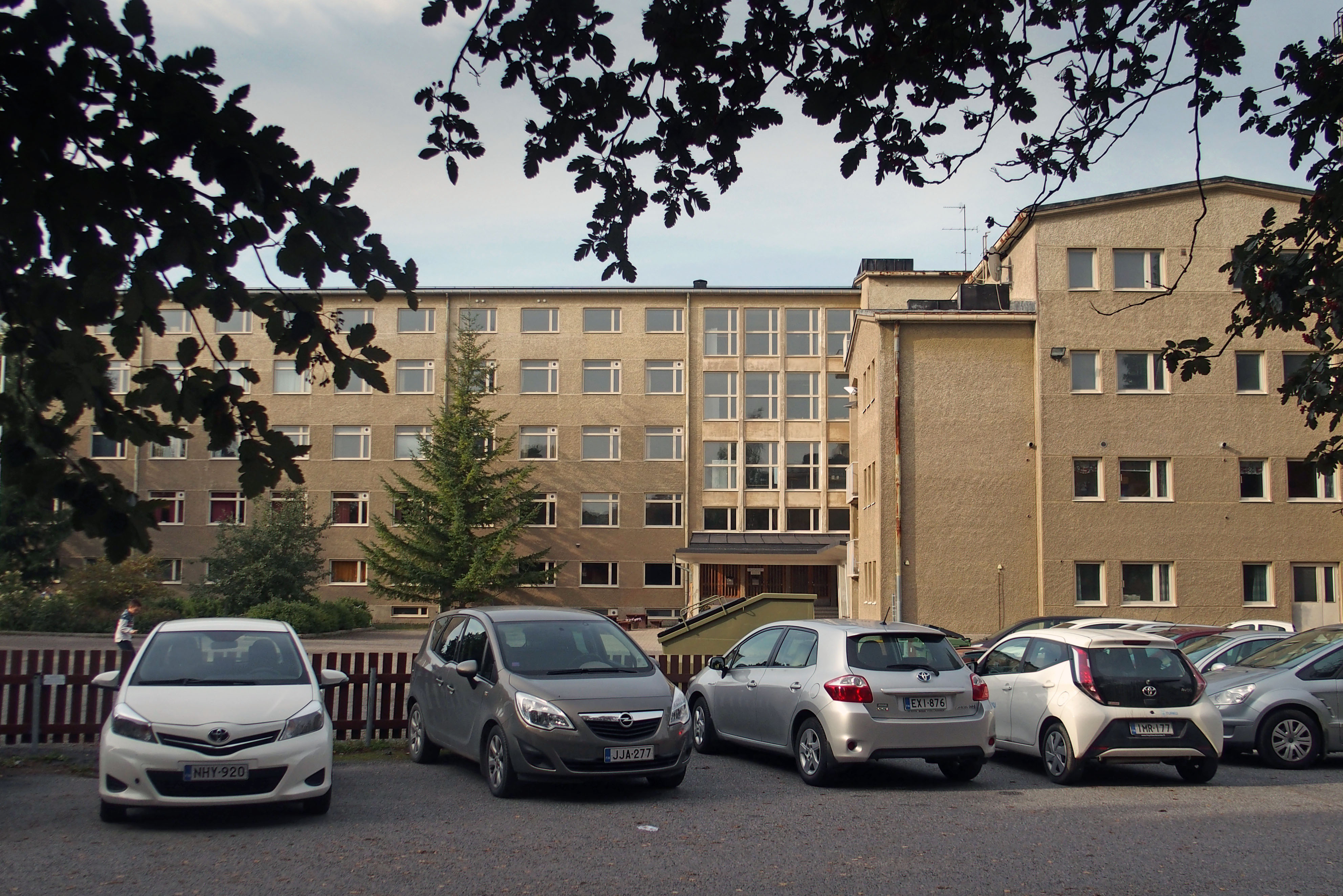 Steinerkoulu, Martti, Turku, Finland. Originally Turun normaalilyseo, 1955, architect Kerttu Tamminen.